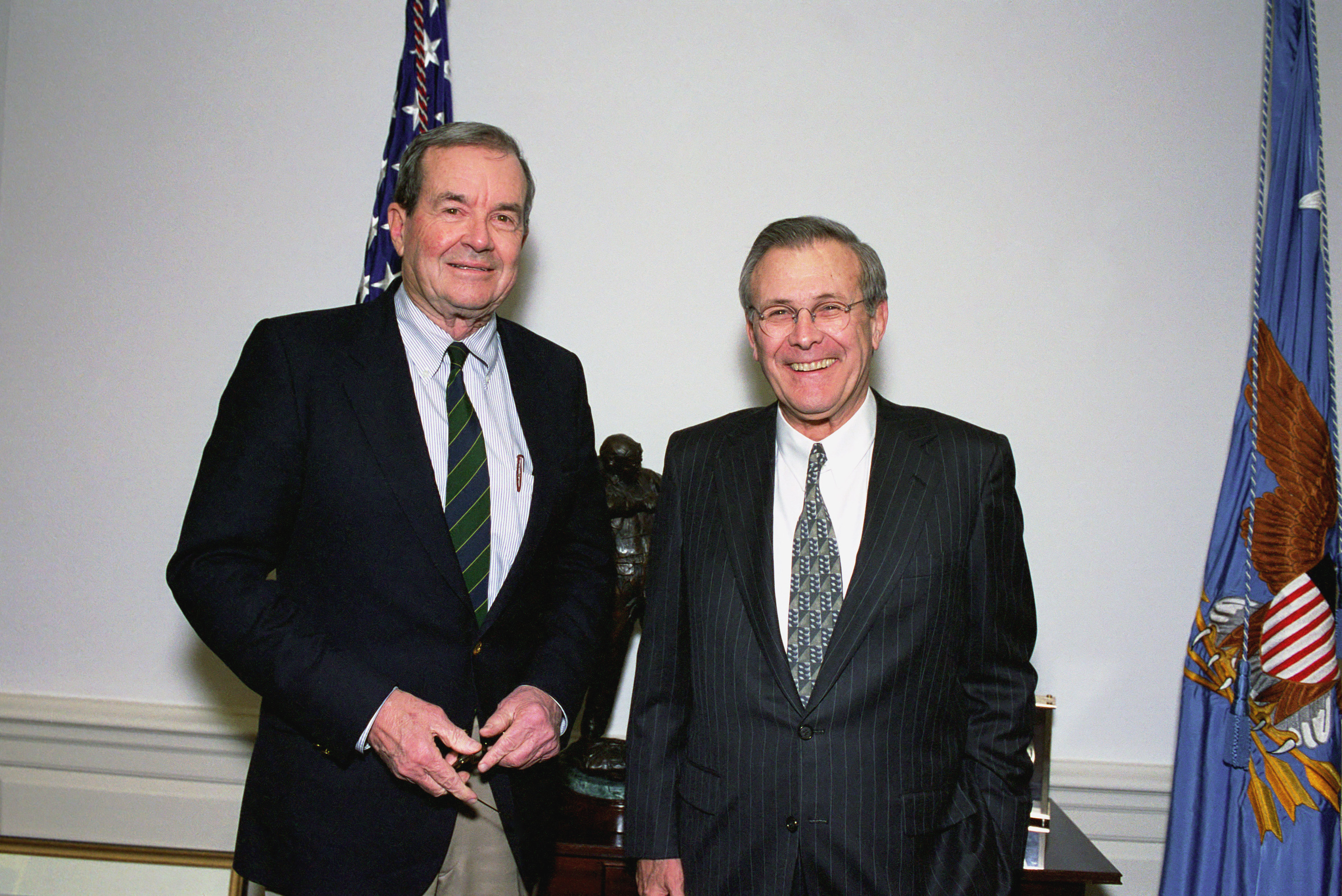 The Honorable Donald H. Rumsfeld, right, U.S. Secretary of Defense, poses for a photograph with Judge William P. Clark, former U.S. Secretary of the Interior, during his visit at the Pentagon, Washington, D.C., on March 5, 2001. OSD Package No. A07D-00031 (DOD Photo by Helene C. Stikkel) (Released)